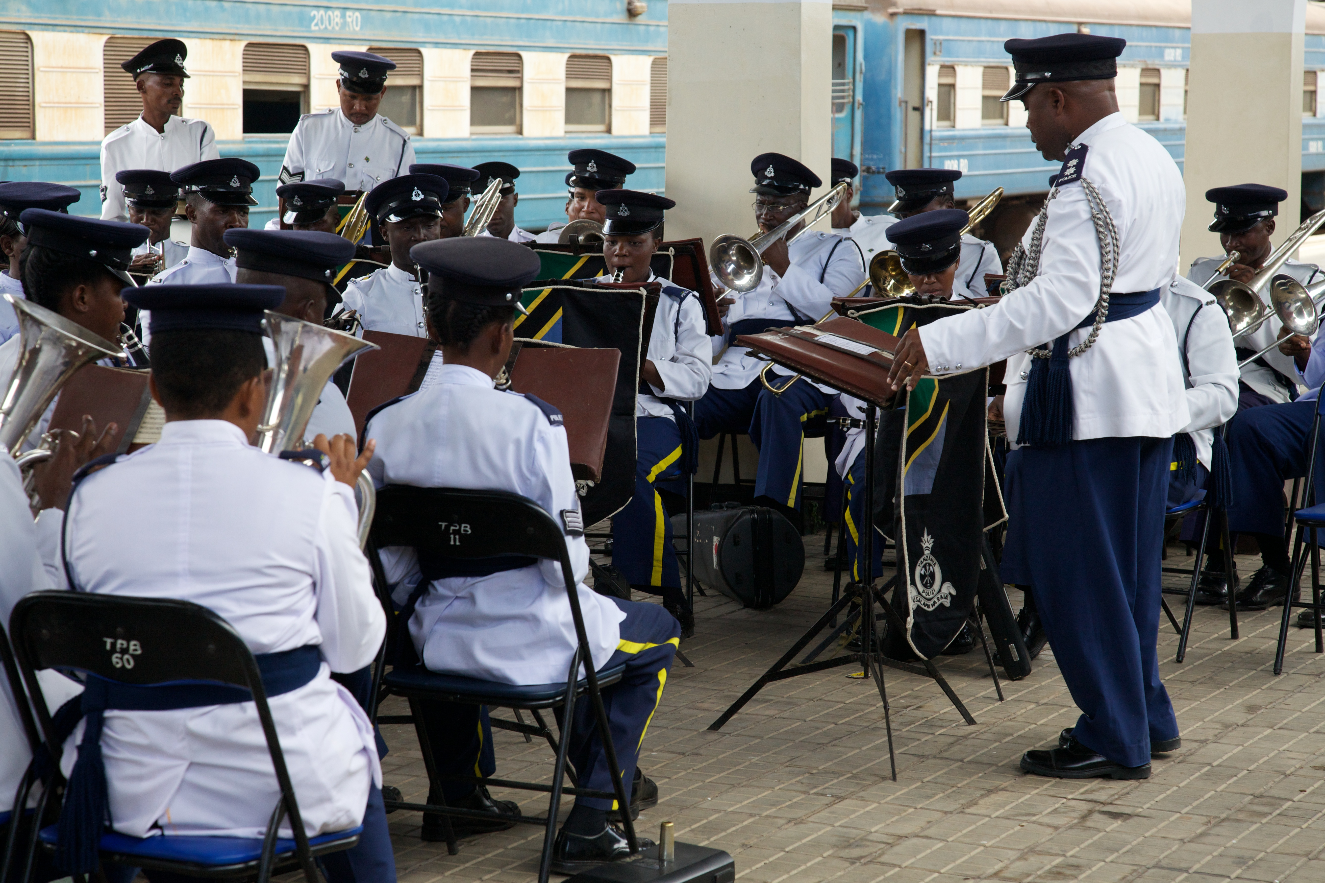 Close up of the brass band playing at the Tazara railway station in Dar es Salaam at our departure.